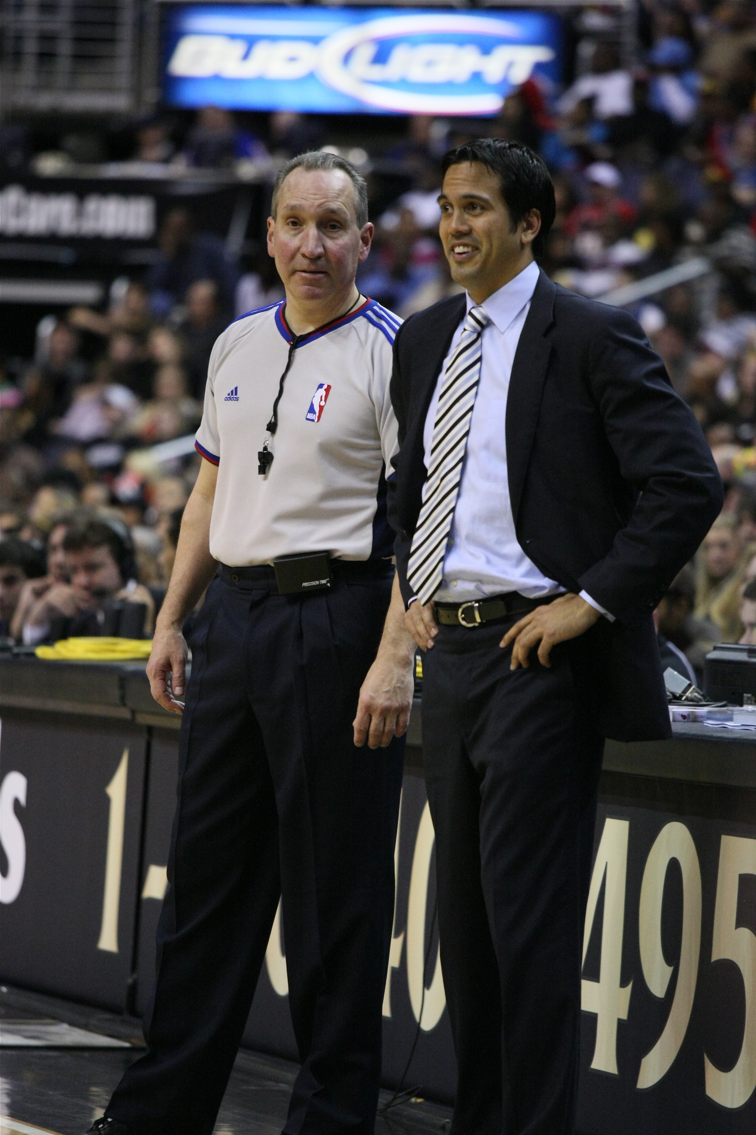 Miami Heat coach Erik Spoelstra standing next to referee Joe DeRosa during the Miami Heat/Washington Wizards game at Verizon Center, April 4, 2009.